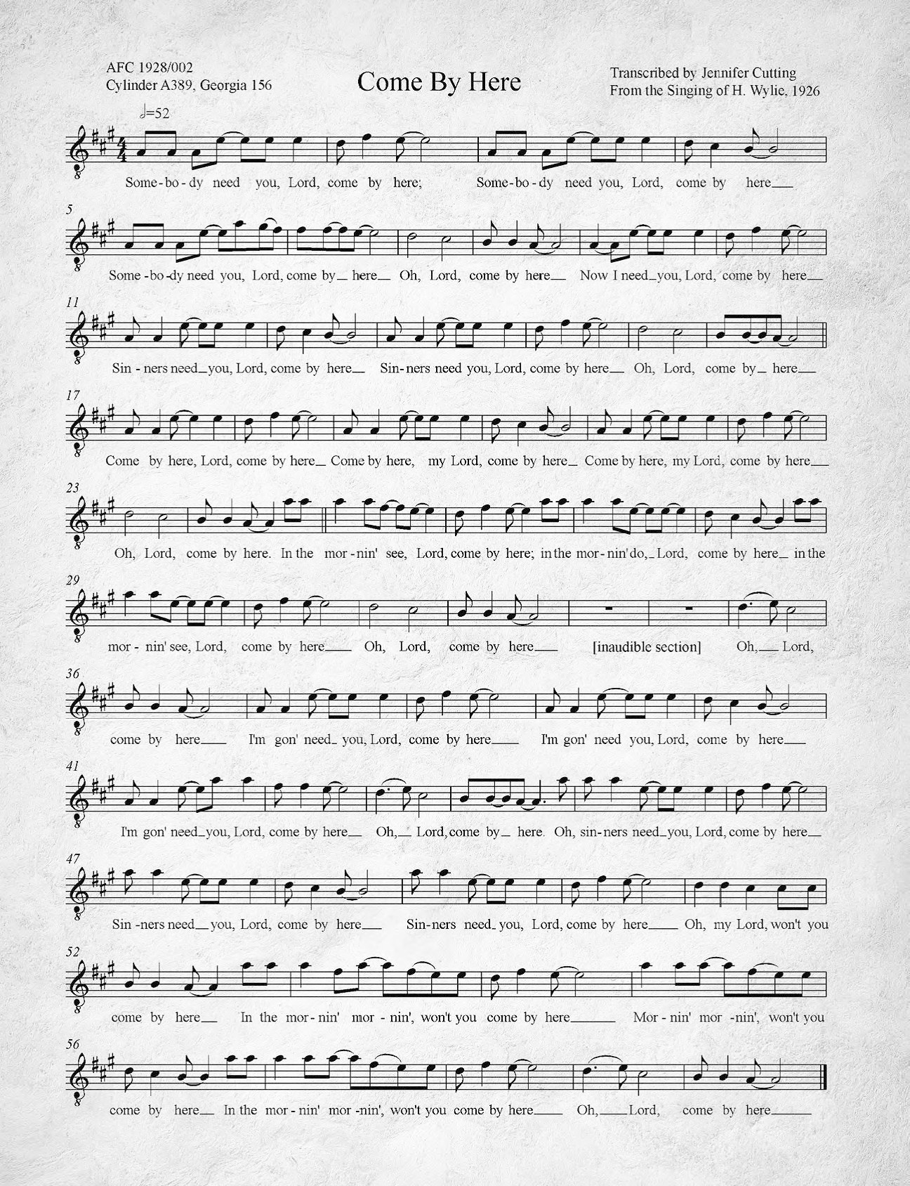 Transcription of a 1926 recording stored at the Library of Congress. The song "Come By Here" is more popularly known as "Kumbaya" or "Kum Ba Ya." The transcription appears to translate the original language.